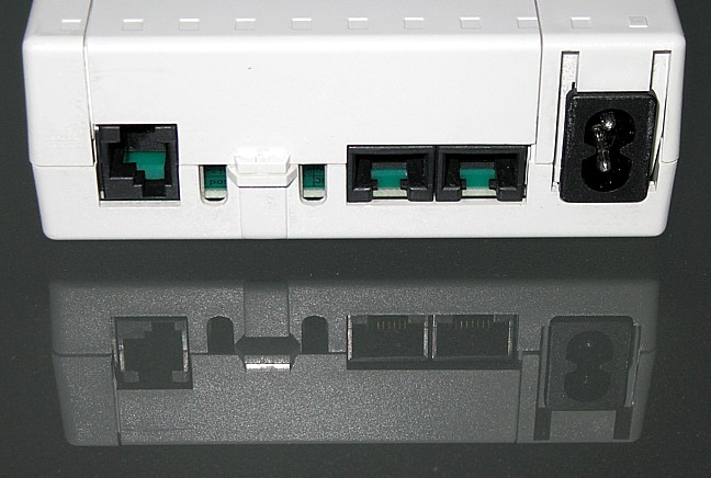 T-Com NTBA